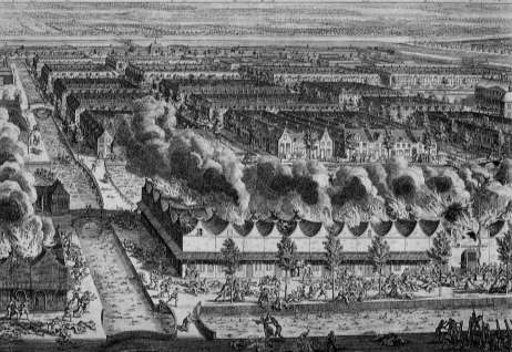 A engraving of the 1740 Batavia massacre